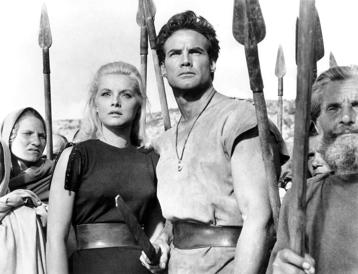 1961 Duel of the Titans Original Press Photo Printed 1969 Steve Reeves Virna Lisi